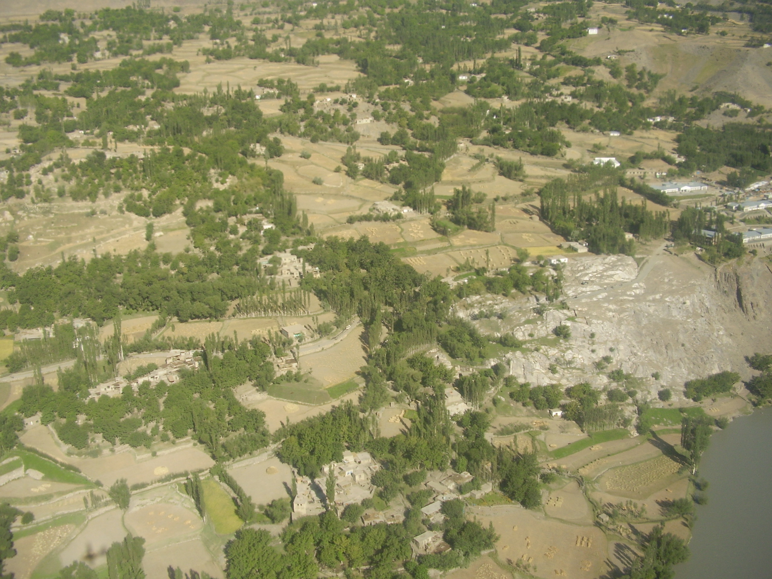 Bird view of Afghani village not far from Khorugh, Tajikistan